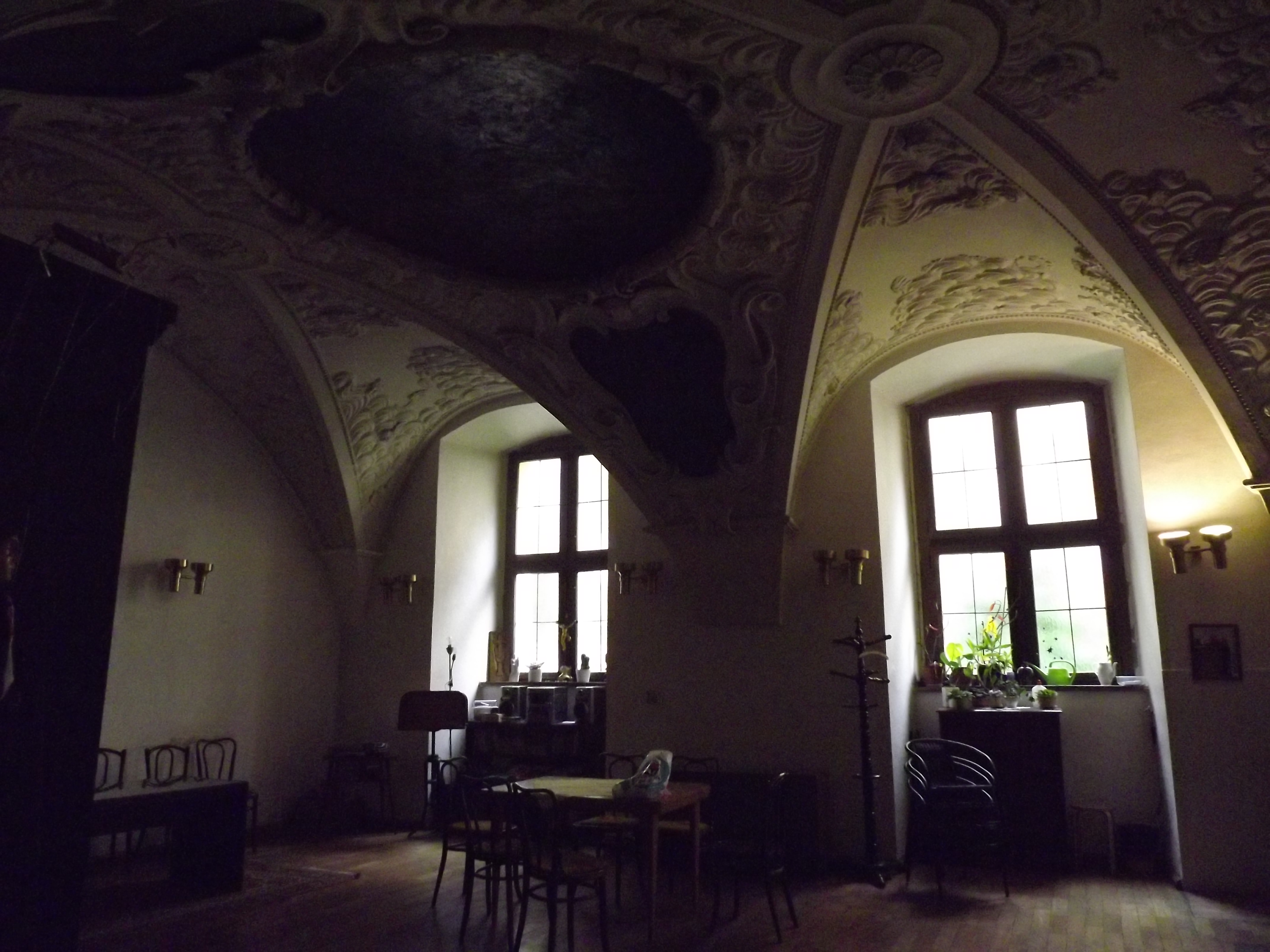 Interior of the sacristy.